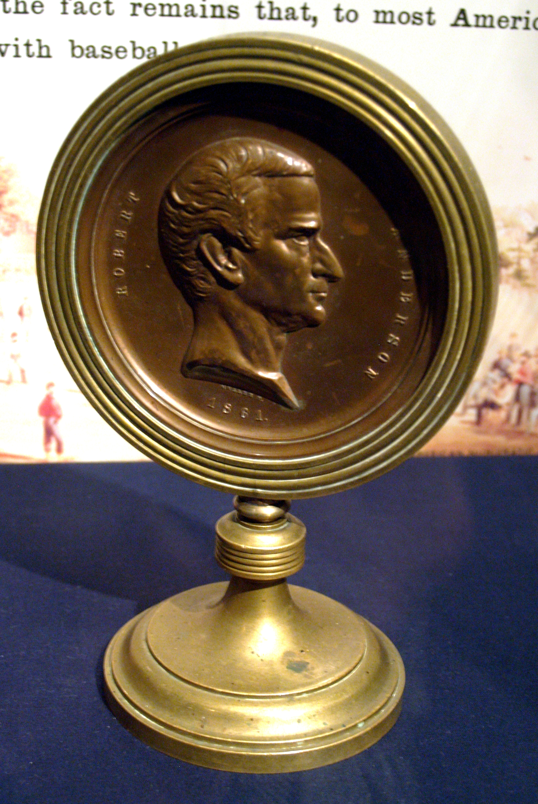 The Fort Sumter Medal bearing the likeness of Major Robert Anderson, and presented to Abner Doubleday. It was issued by the State of New York Chamber of Commerce. The inscription on the medal reads, "THE CHAMBER OF COMMERCE OF NEW YORK HONORS THE DEFENDER OF FORT SUMTER - THE PATRIOT. THE HERO. THE MAN."